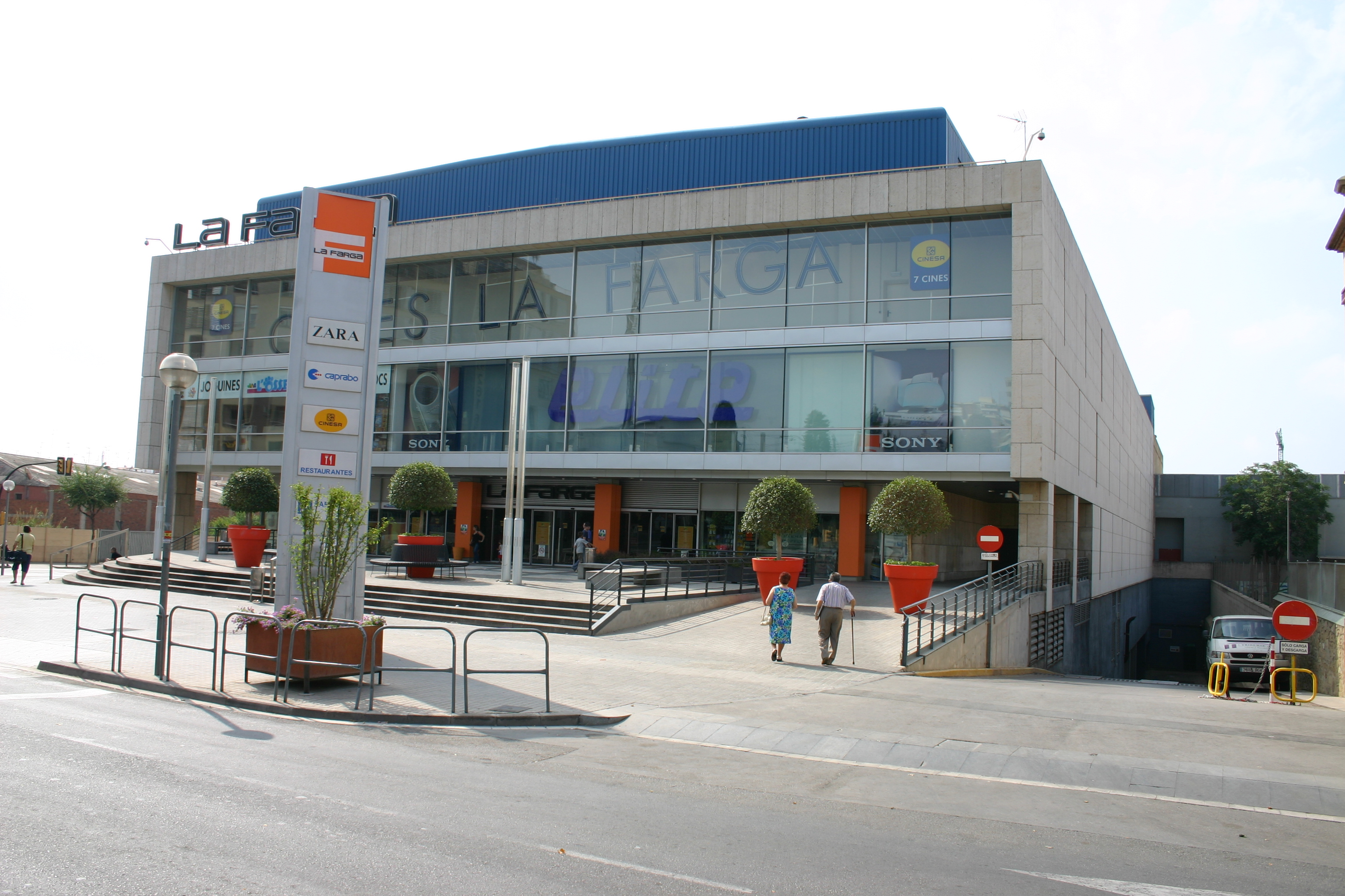 La Farga mall